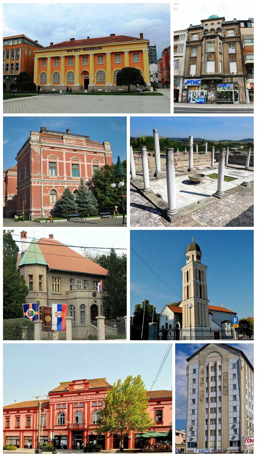 City of Zaječar- photomontage (National Museum, Building in Marshal Tito Street No. 5A, The building of the District Headquarters in Zajecar, Gamzigrad, Historical archive, Temple of the Most Holy Theotokos, City ​​Hall, Hotel Tis)